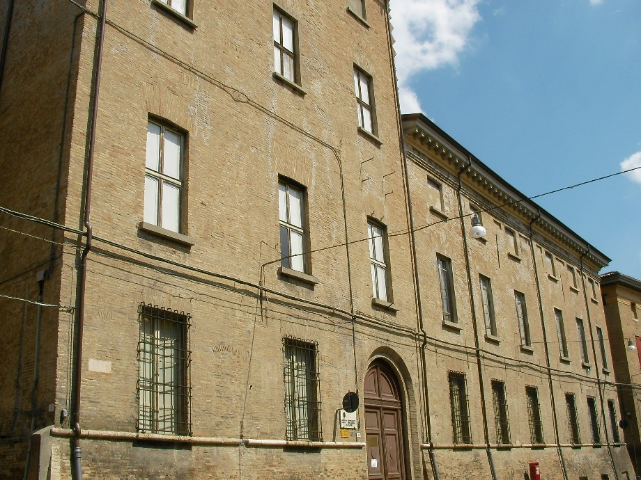 The external of the Gaddi palace of Forlì